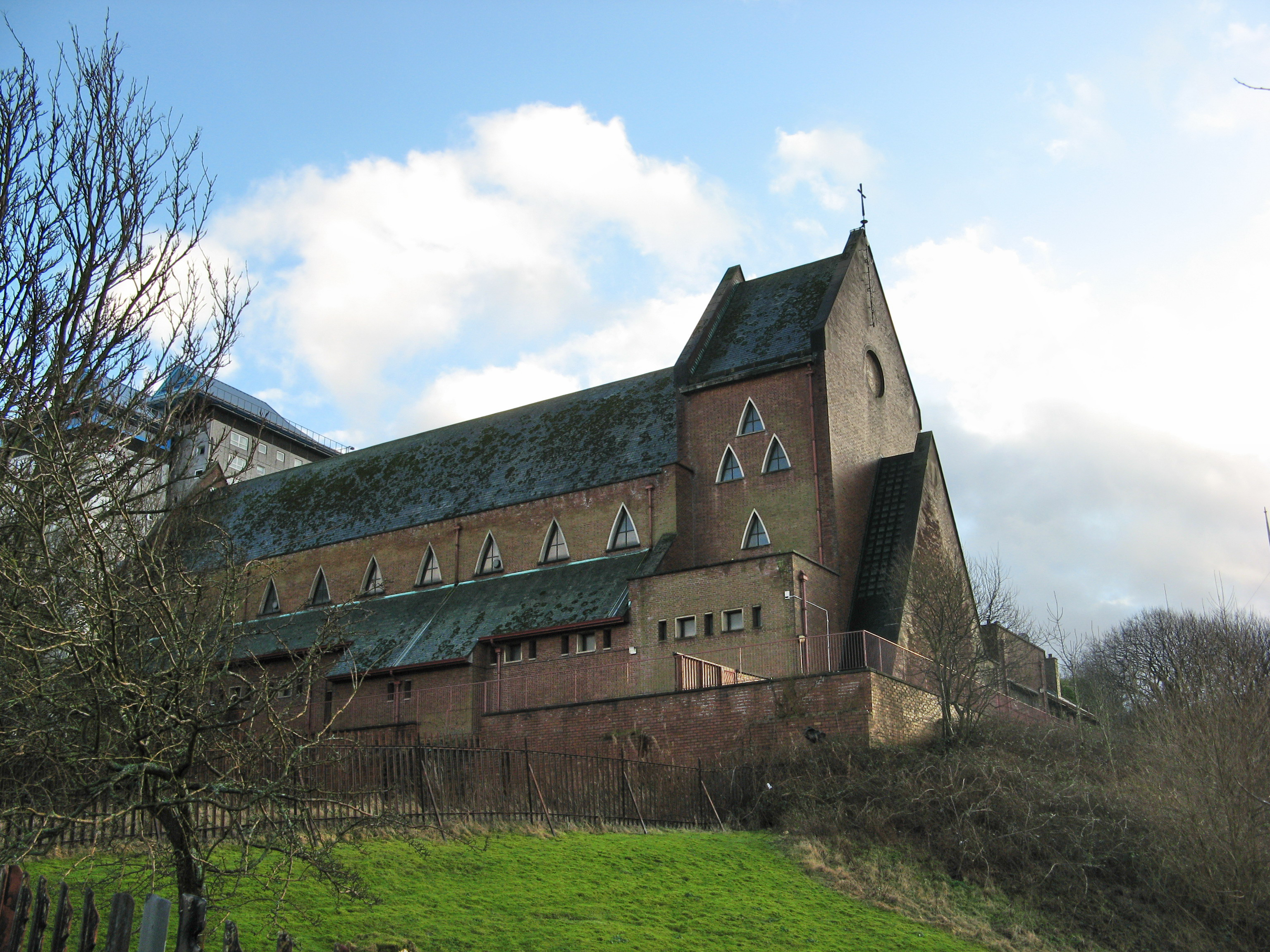 St Laurence's Roman Catholic Church, Greenock, Scotland. 1951-54 by Gillespie Kidd and Coia.